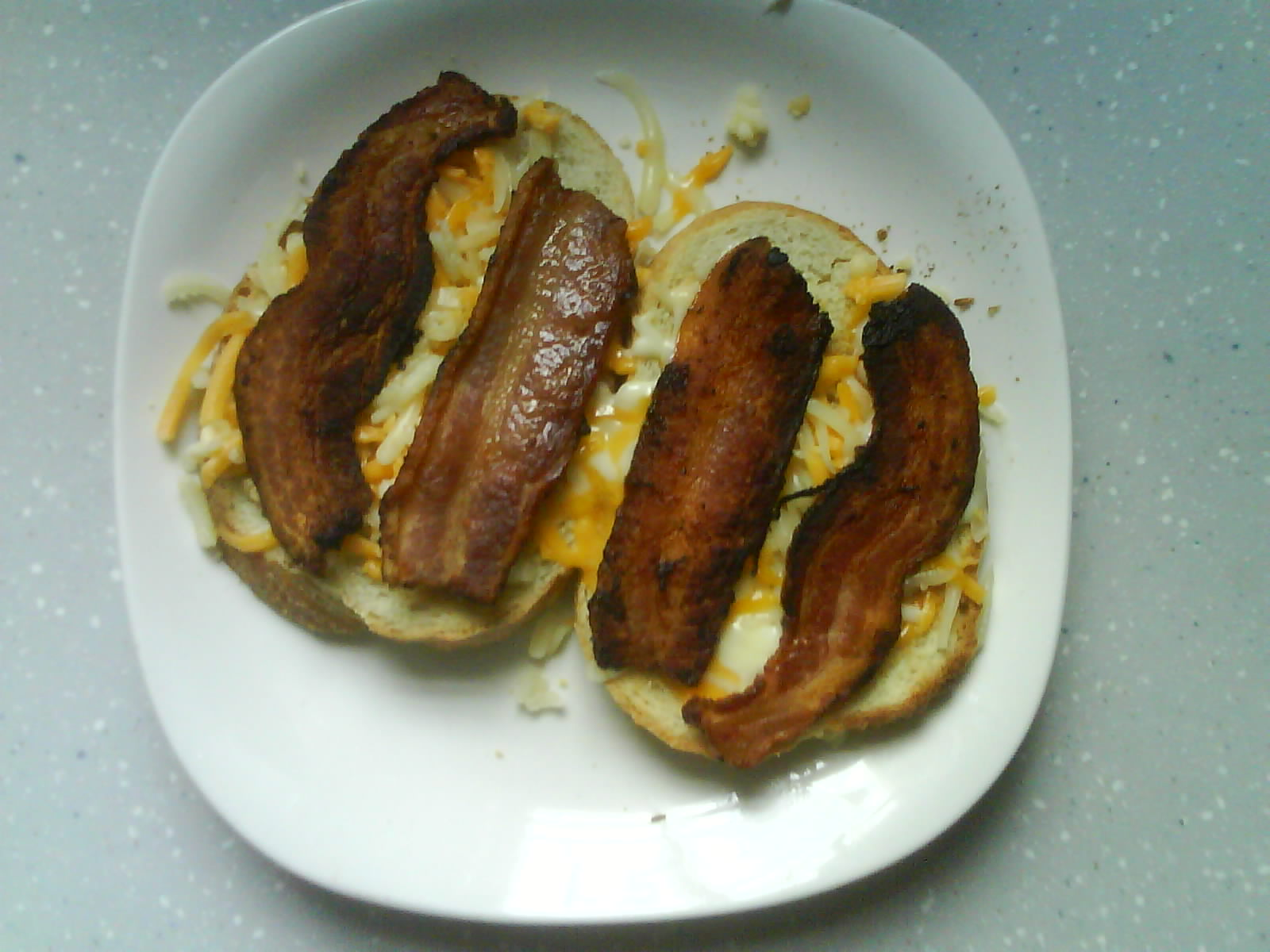 An open-face cheese dream with triple-thick bacon